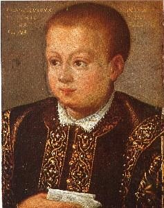 Portrait of Francesco III Gonzaga, Duke of Mantua (1533-1550)